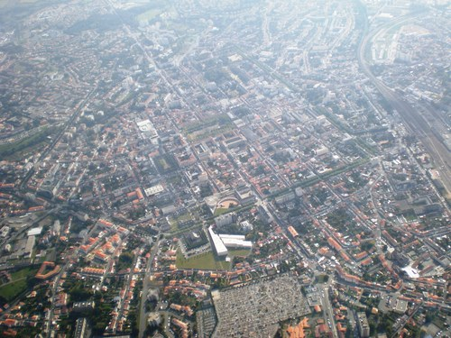 Napoléonic town of La Roche-sur-Yon